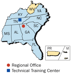 US Nuclear Regulatory Commission region 2 map